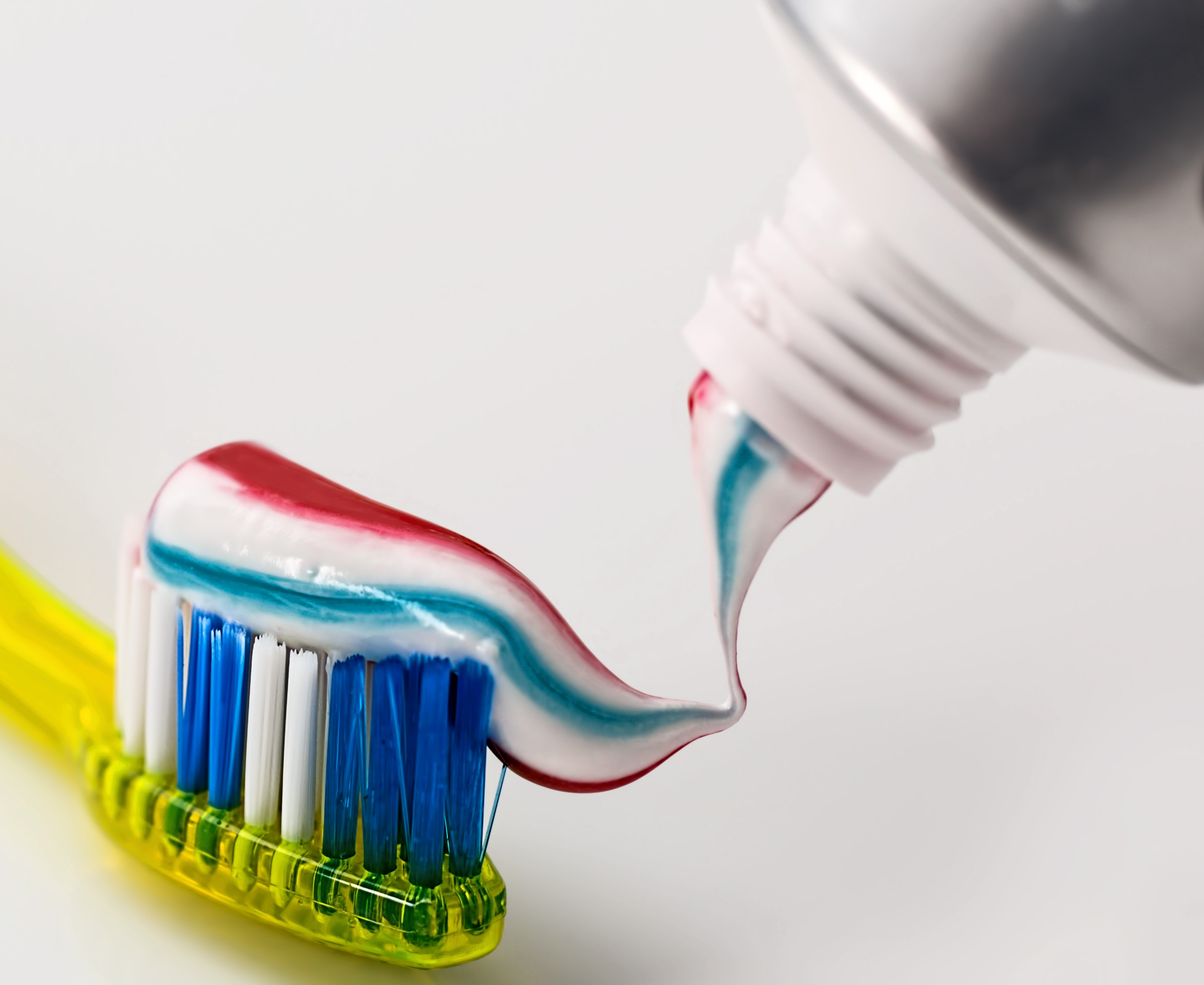 Toothbrush with toothpaste